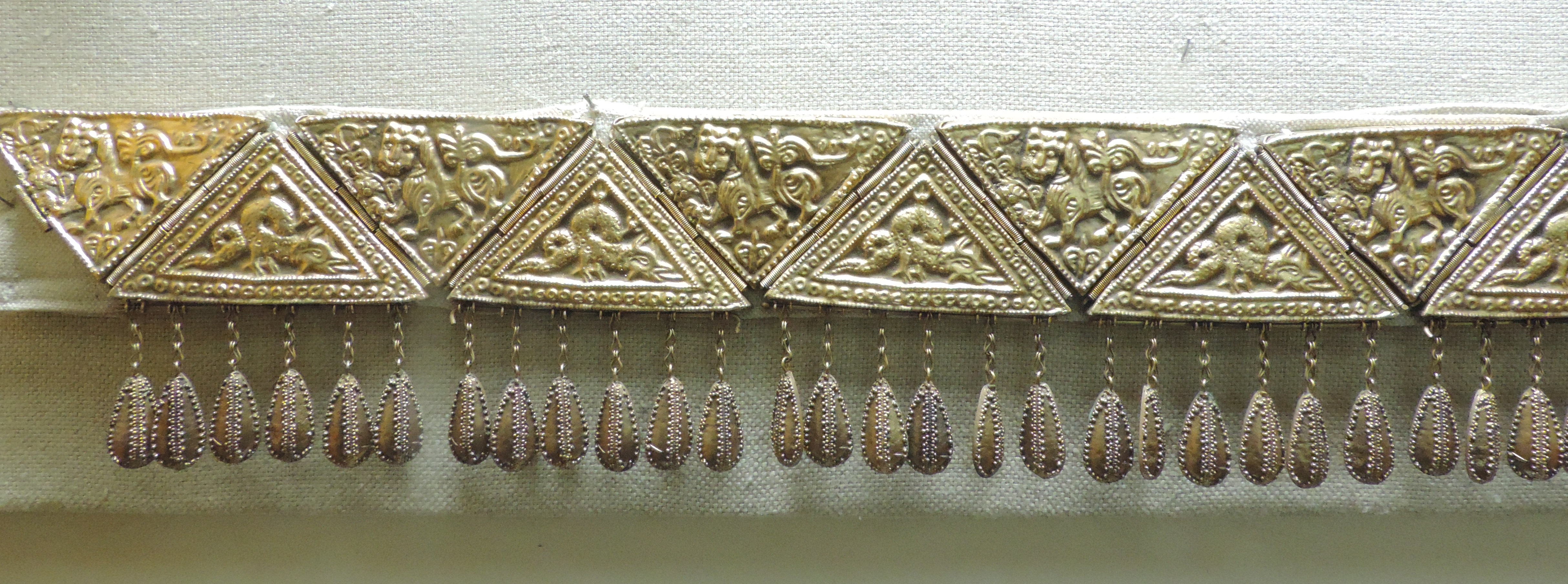 Diadem – "prochelnik" (forehead belt). Decoration from the Druzhba Treasure, 14 century AD. Exhibits of the Regional History Museum "Konaka" in Vidin, Bulgaria